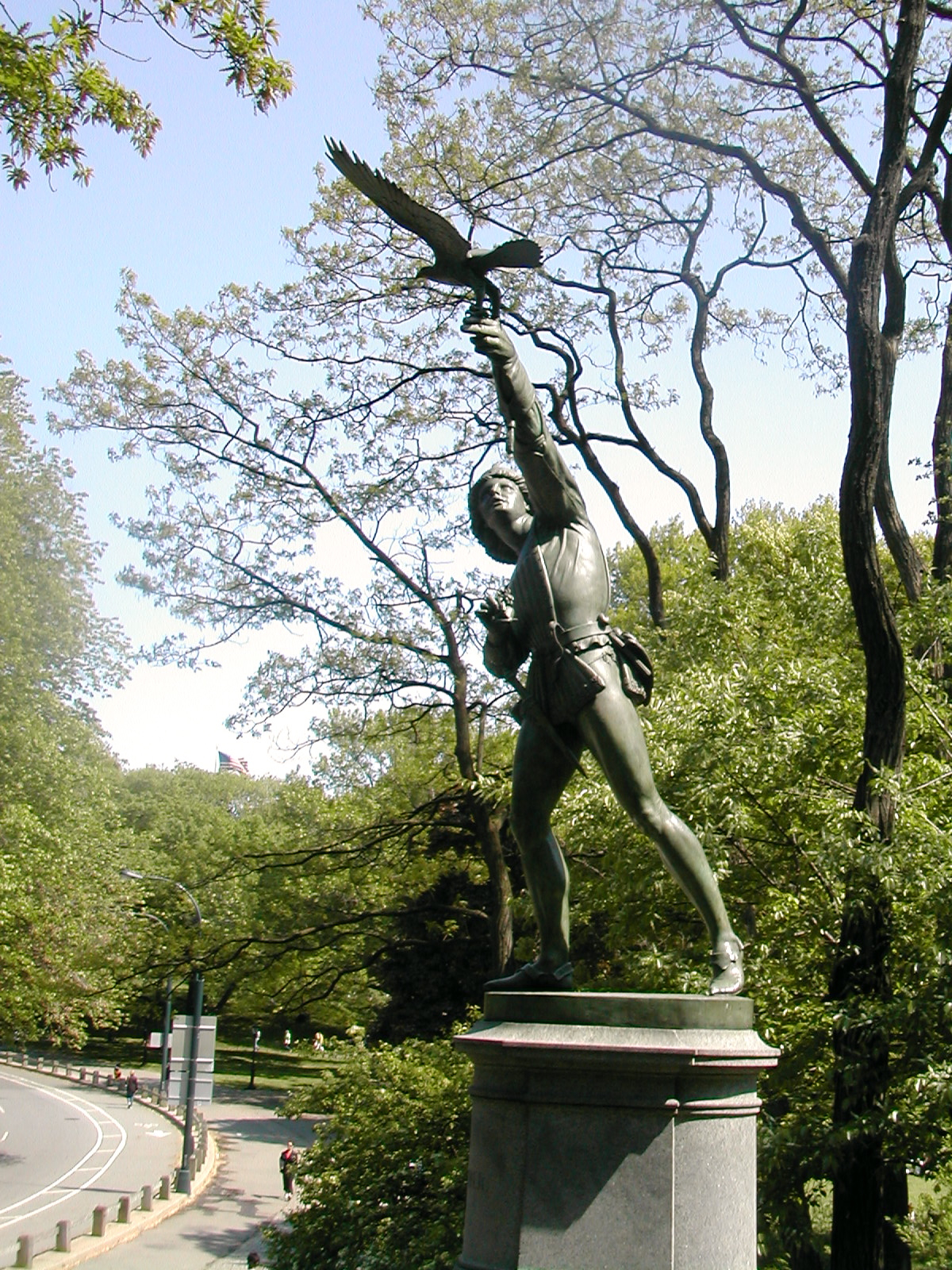 Sculpture "The Falconer" from 1875 by George Blackall Simonds (d. 1929) in Central Park, New York, NY